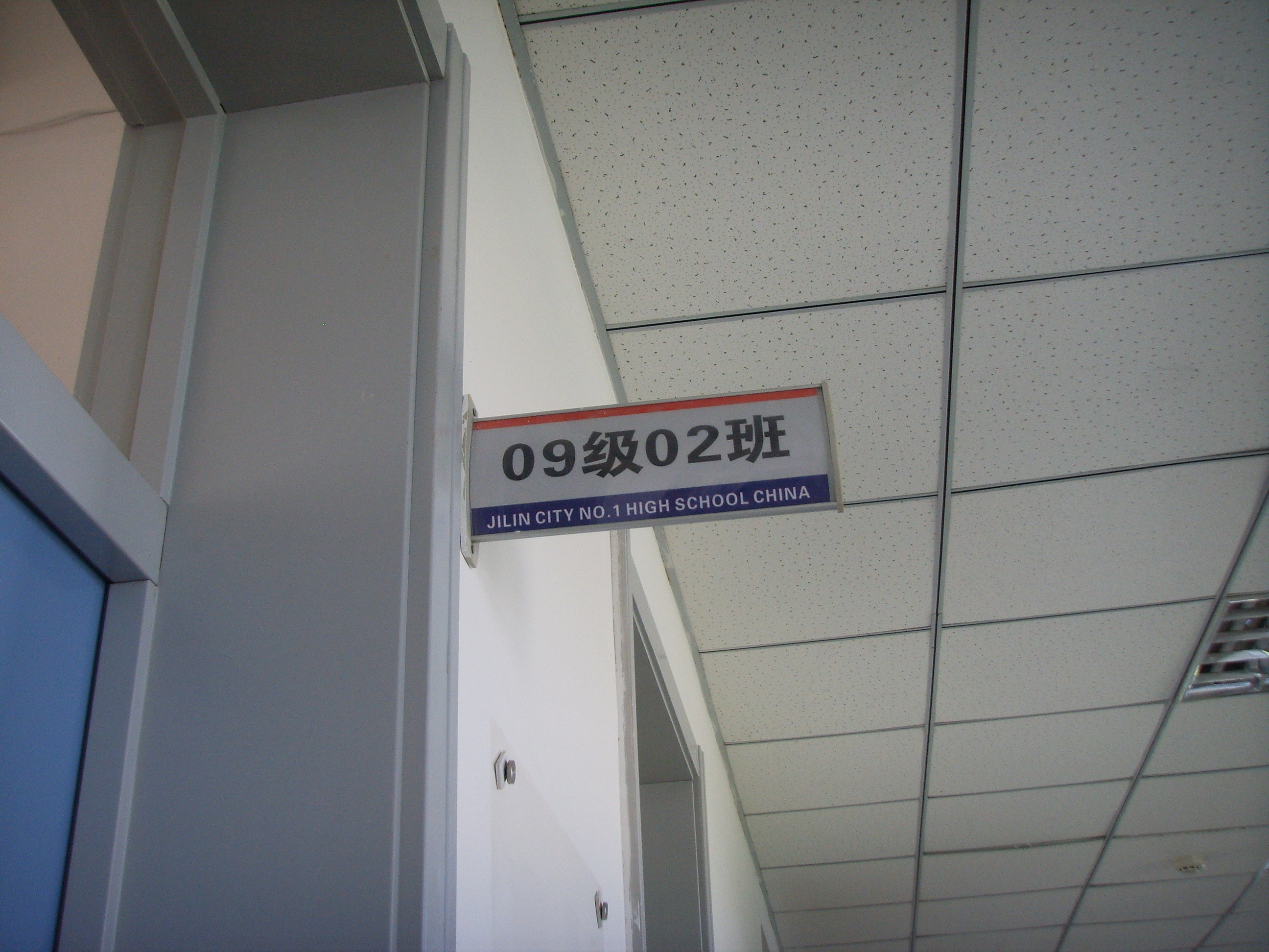 It's the class sign of the Jilin No.1 high school of China.